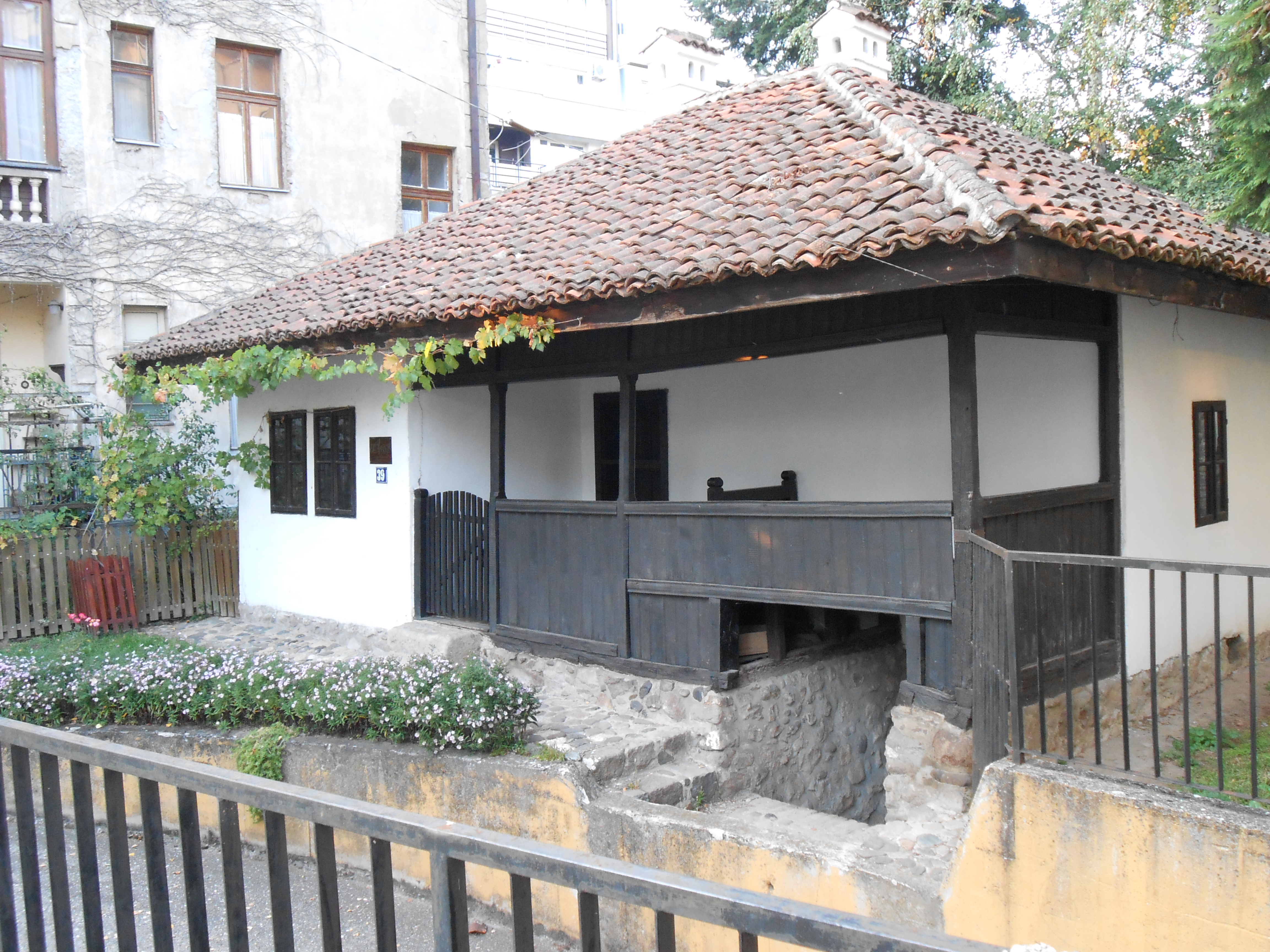 Adzic family house, one of oldest buildings in Kraljevo, Serbia. It is situated at Cara Dušana street.